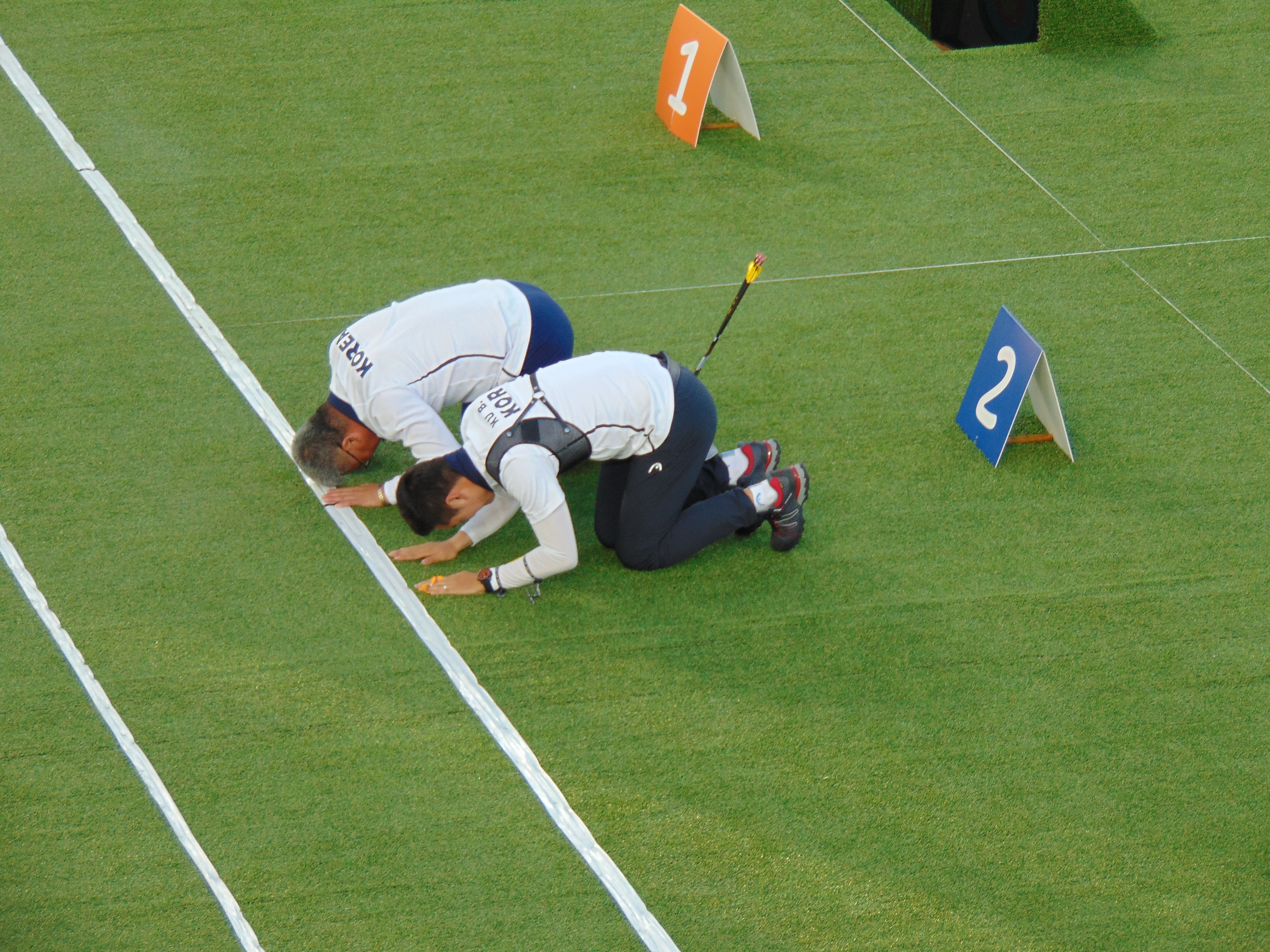 Rio 2016 - Men's archery finals